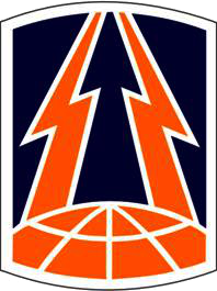 w:335th Theater Signal Command (United States) shoulder sleeve insignia